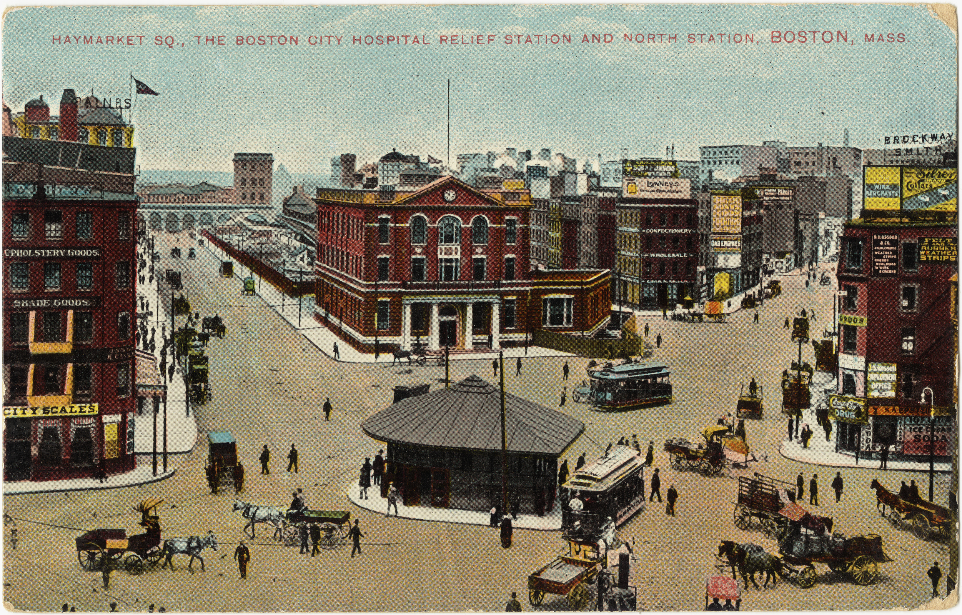 This is a 1909 scanned postcard depicting Haymarket Square in Boston, Massachusetts.